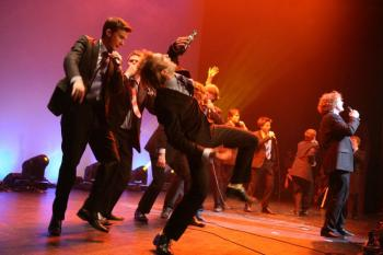 Laurie_2